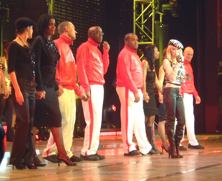 Kylie Minogue and her troupe at the end of the Money Can't Buy concert at Hammersmith Apollo, London. 2003